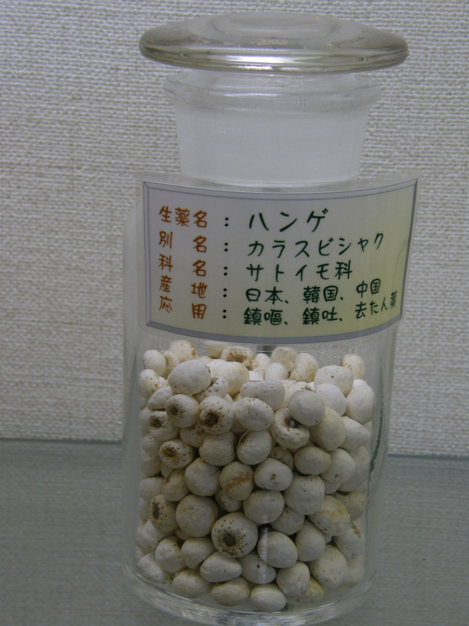 Pinellia ternata